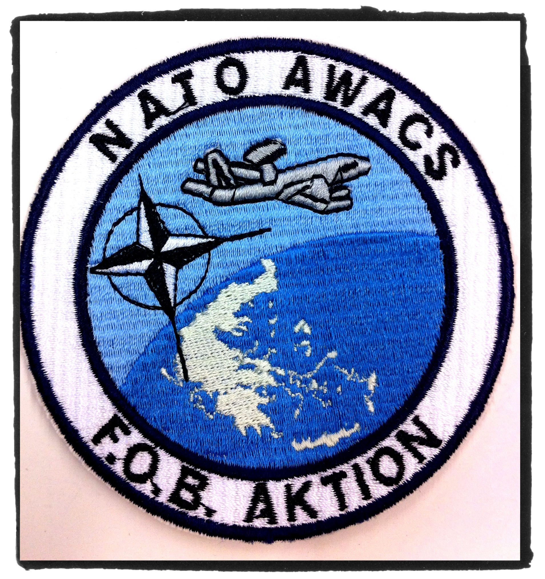 Forward Operating Base (FOB) Aktion